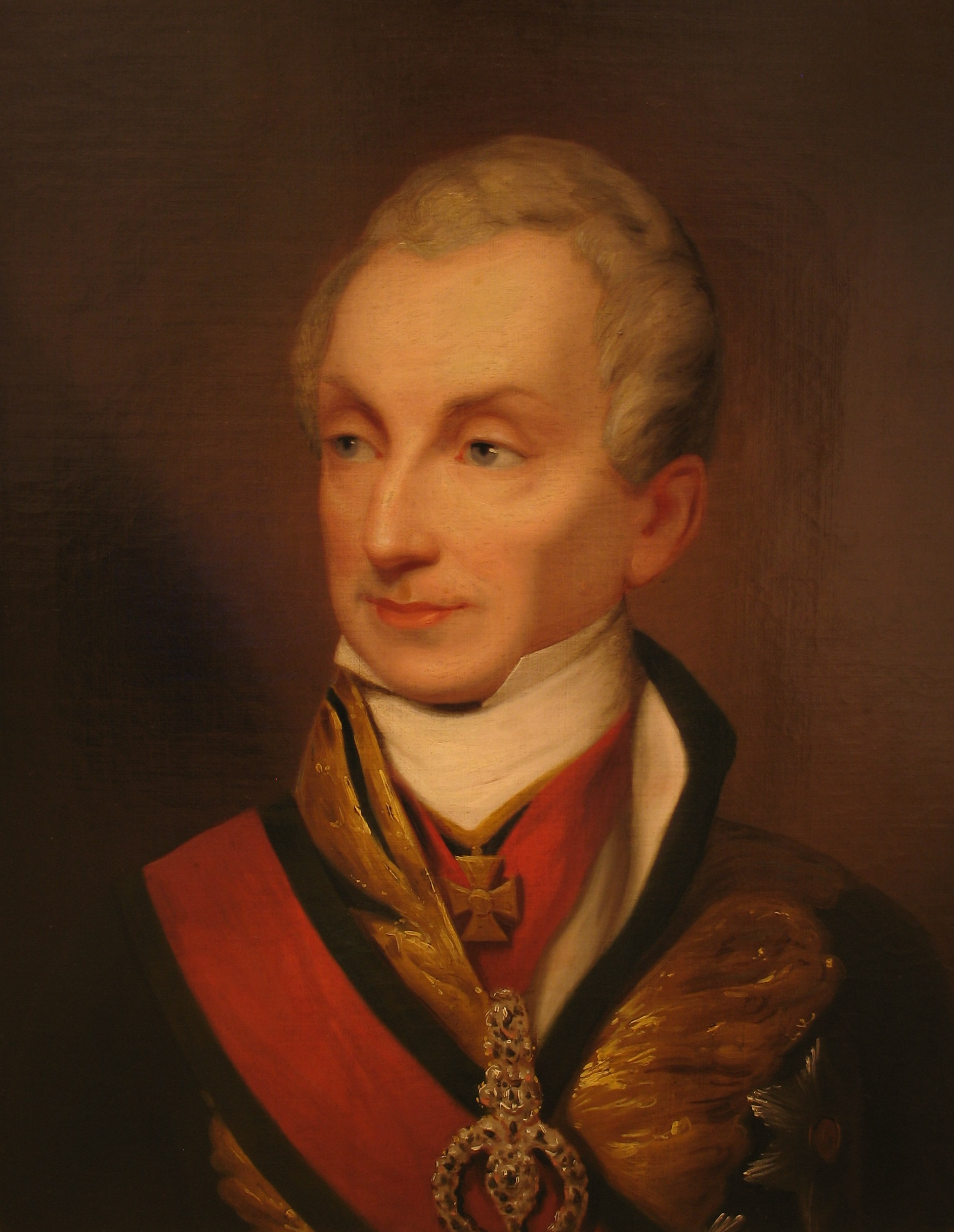 Austrian statesman Klemens von Metternich (1773-1859)